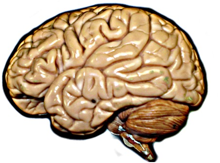 External view of brain from human brain model showing the gyri of the cerebrum and the cerebellum.